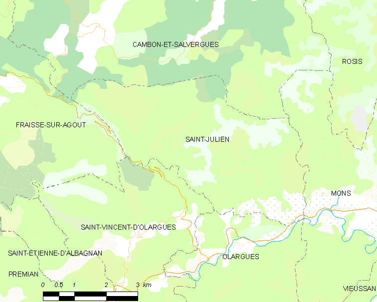 Map commune FR insee code 34271.png - Saint-Julien (Hérault)